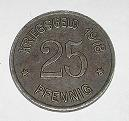 1918 25 pfennig. Picture taken by: User:Der Sporkmeister.